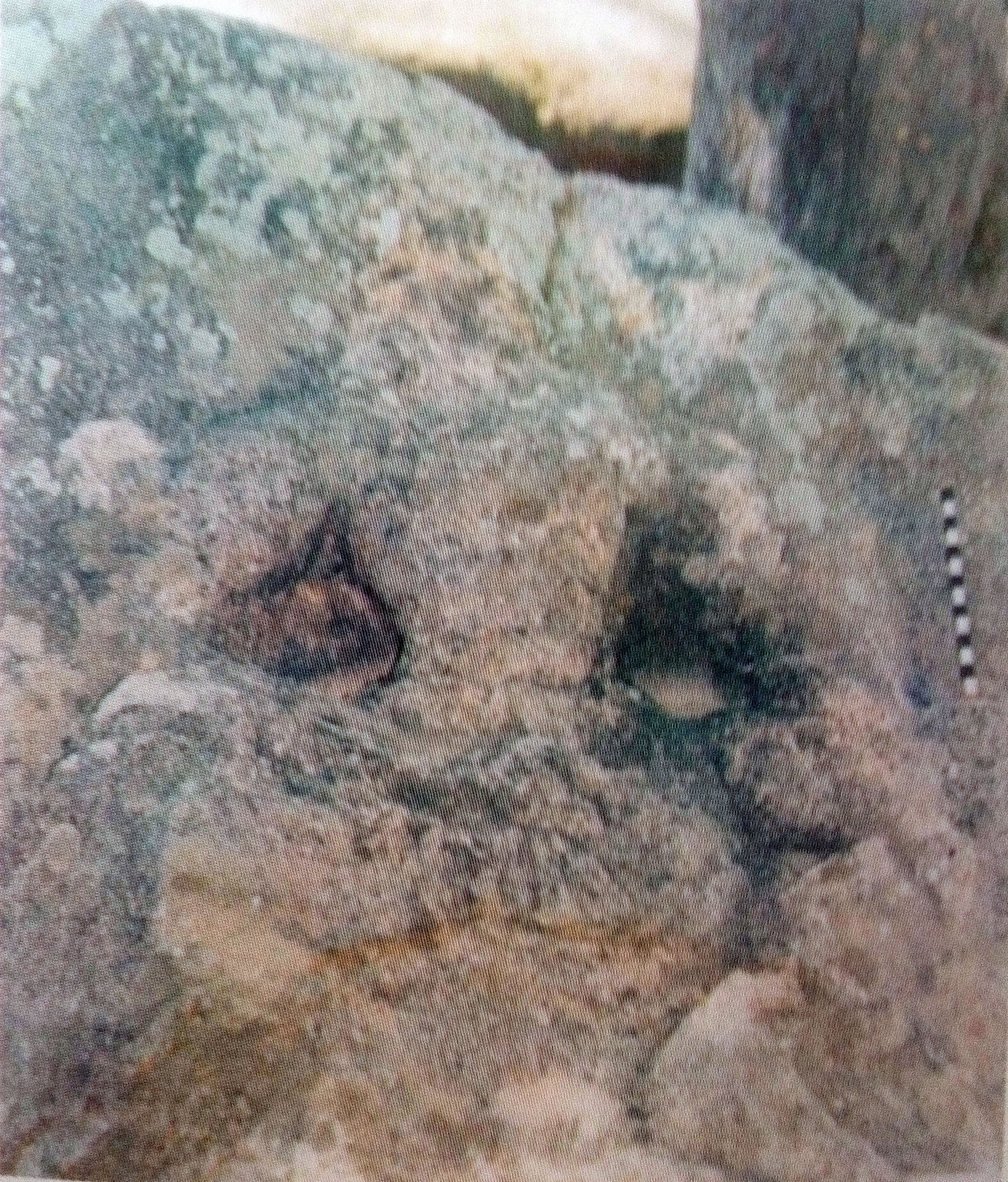 Buddhist Rock Carvings in Manglawar